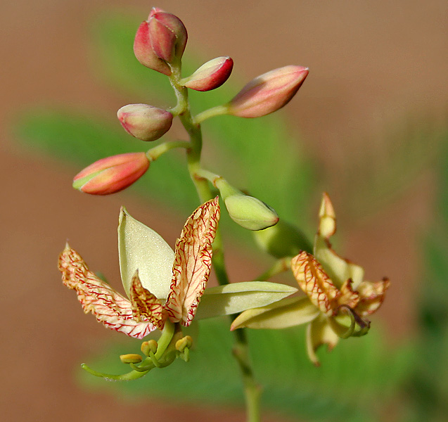 Tamarindus indica - Imli, Tamarind, Indian date, Tentuli, Chinch, Tẽtul, Chintachettu, Chintapandu, Puli or Hunase in Hyderabad, India.